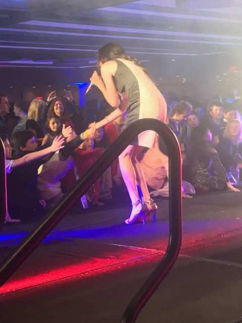 photo of Meredith O'Connor during concert